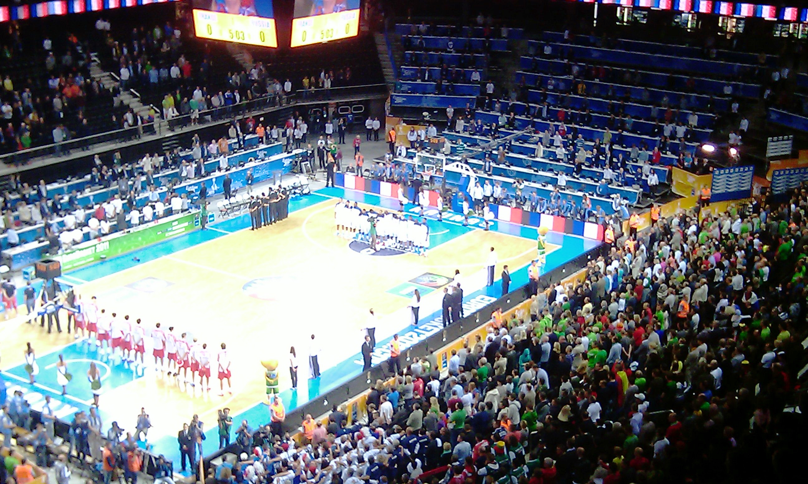 Semi finals of Eurobasket 2011. Russia vs France. 2011-09-16